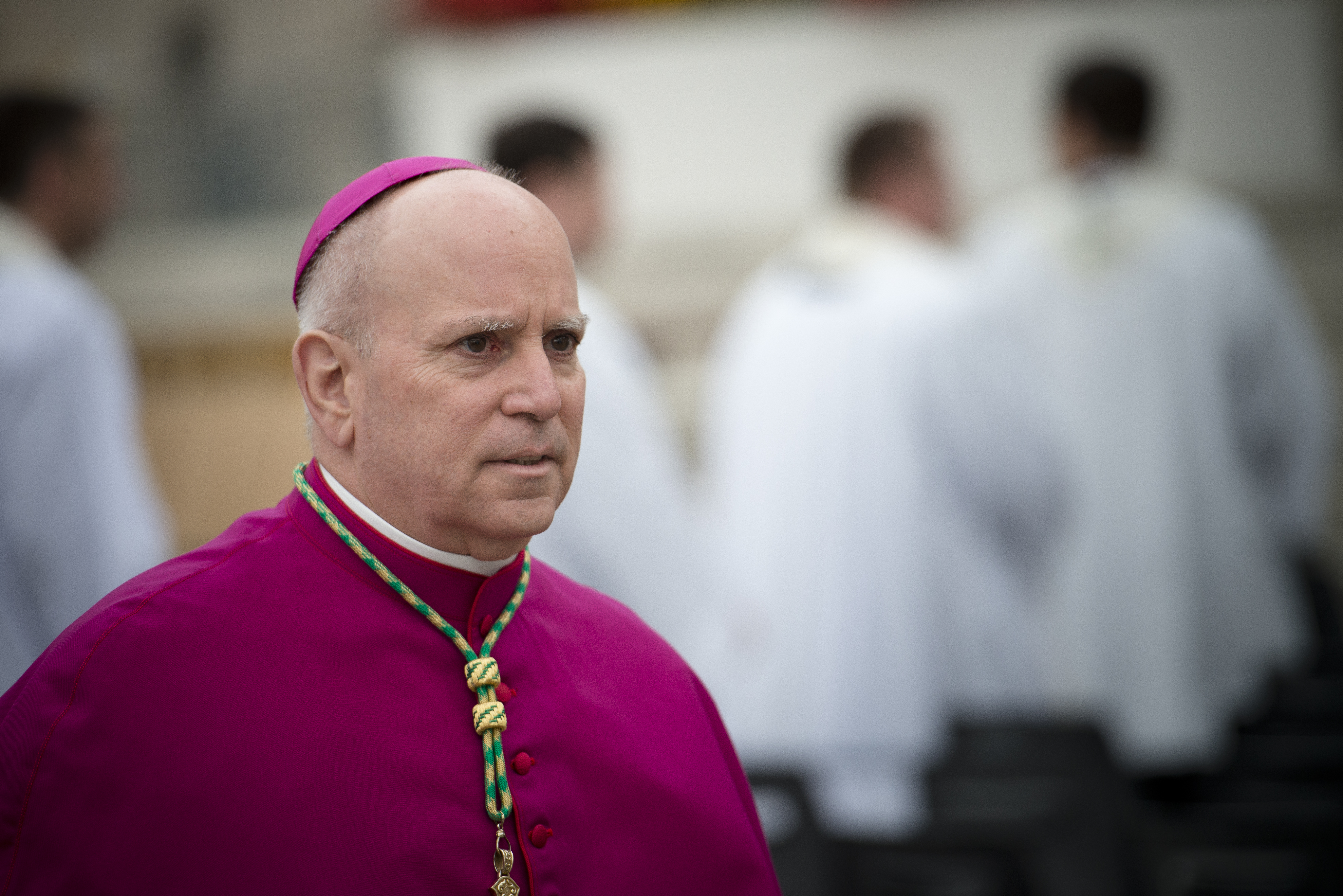 ROME,VATICAN 27 April: Images from the Canonization of Saint John XXIII and Saint John Paul II by Pope Francis and the Catholic Church. This event, attended by millions is amongst the most important in current history. PICTURED: Archbishop Aquila from the Archdiocese of Denver (USA) JEFFREY BRUNO/ALETEIA